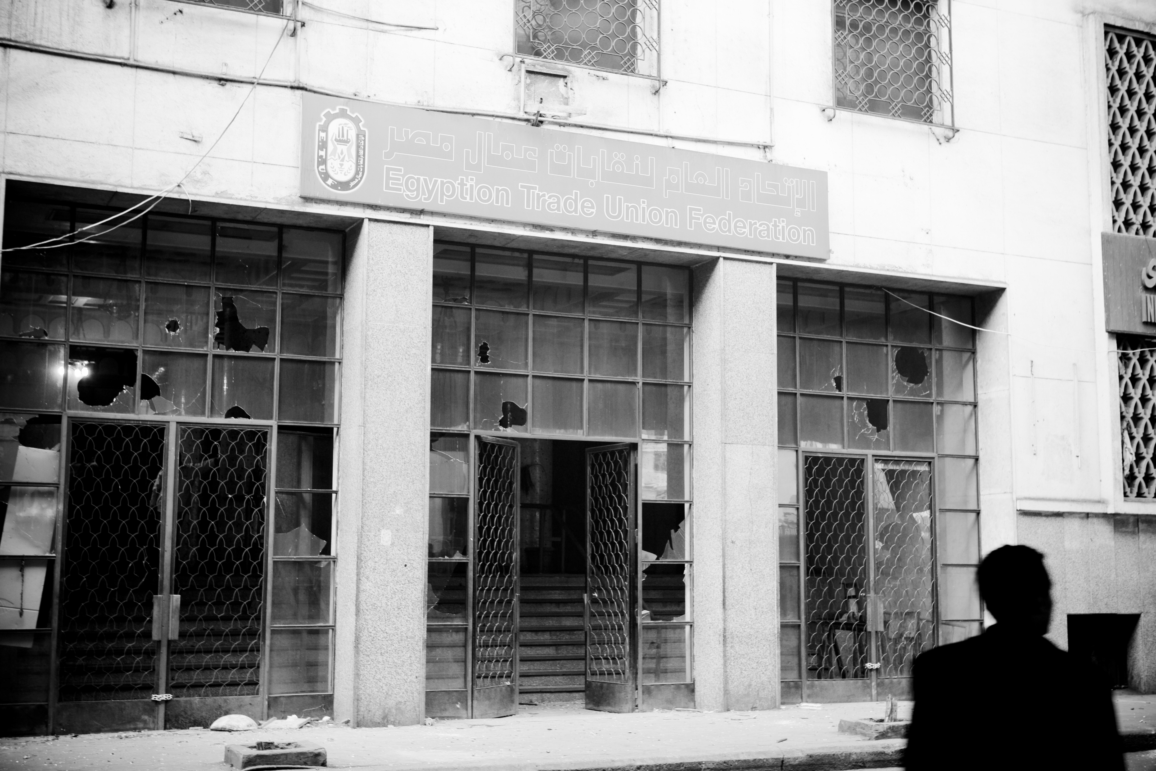 On 14 February 2011, around 100 independent trade unionists held a protest in front of the headquarters of the Egyptian Trade Union Federation, denouncing the federation president Hussein Megawer, a businessman and close associate of Hosni Mubarak. The protesters tried to enter the lobby of the building peacefully, only to be met with glass bottles, rocks, sticks and fire extinguishers. The military police arrived after half an hour of ongoing clashes and arrested a person from the ETUF.